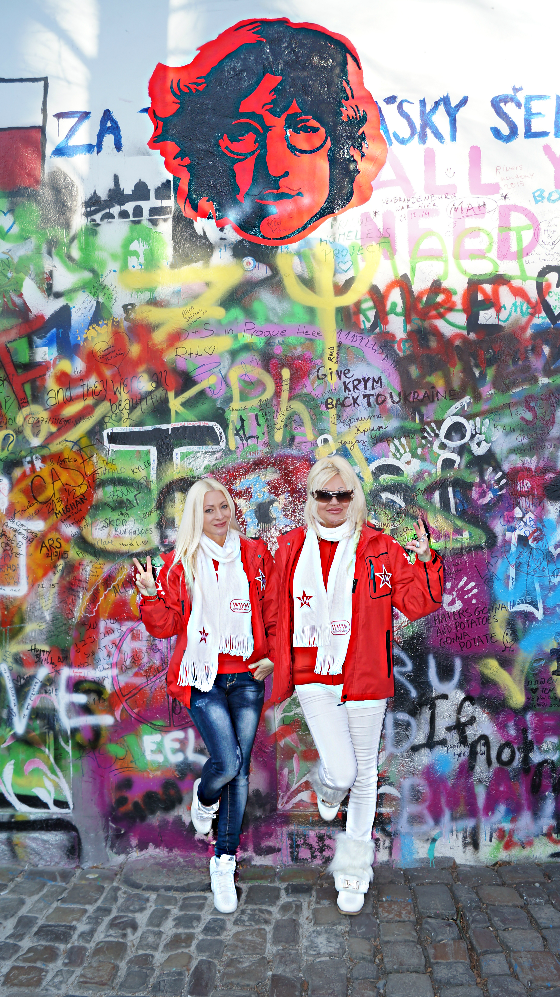 Photo by: World Wide Wilson